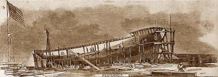 Engraving that depicts the USS Ottawa on the stocks at the Jacob A. Westervelt shipyard. The ship was launched 22 August 1861.